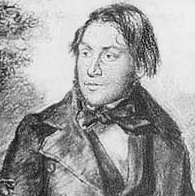 Andrew Nichol